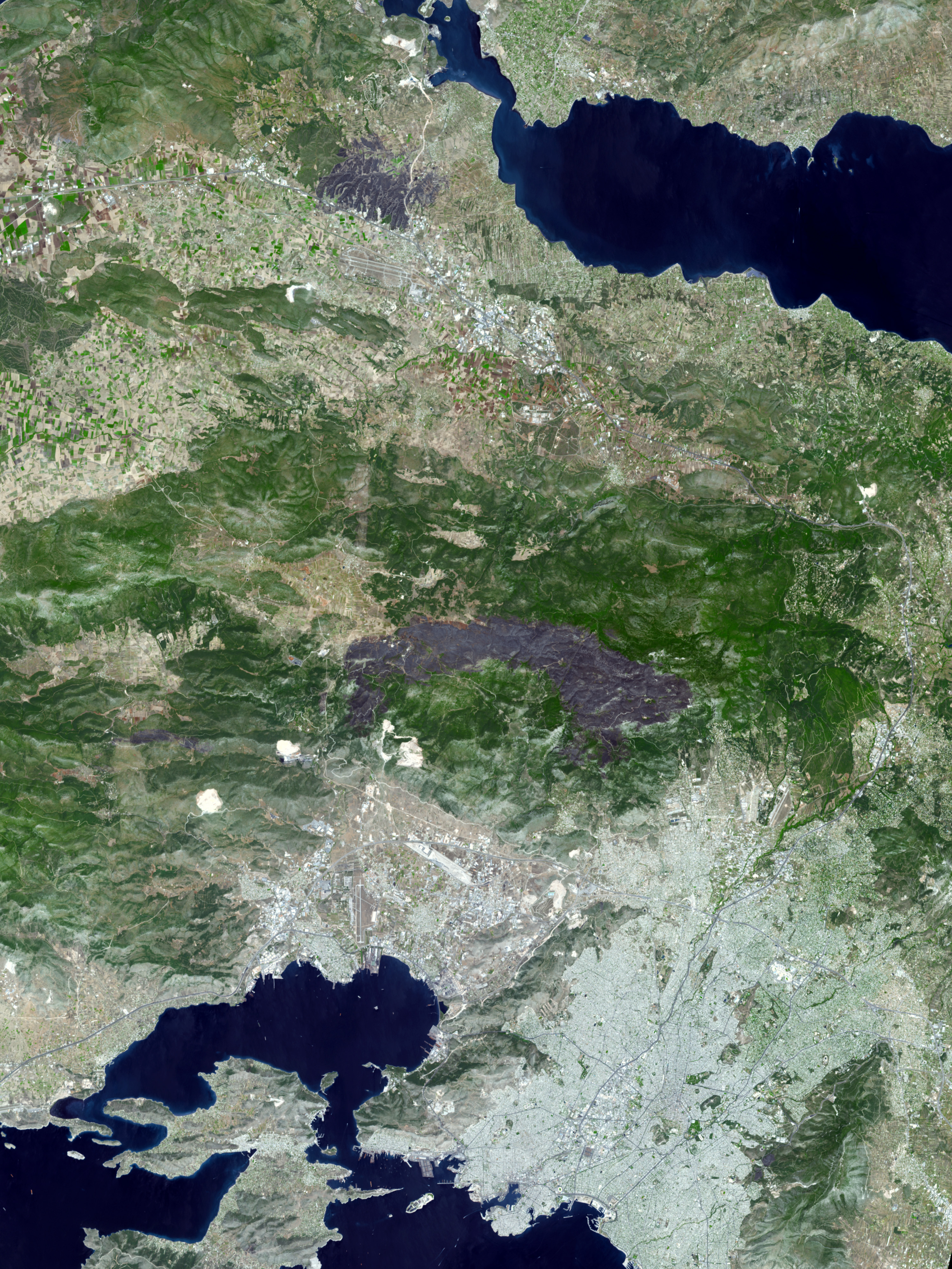 Just north of Athens, Greece, lies Mount Parnitha, much of which is a national park. Home to numerous endemic (unique) species, Parnitha comprises one of the few remaining forested areas near Athens. On June 28, 2007, the mountain caught fire and burned for several hours with great intensity due to strong winds. On July 20, 2007, the Advanced Spaceborne Thermal Emission and Reflection Radiometer (ASTER) captured the scar the fire left on the landscape. Around the burn scar, forest remains green, although the vegetation is interrupted by areas of pavement and bare ground. South of the forest, the city of Athens changes the landscape, with gray-white surfaces of pavement and buildings.